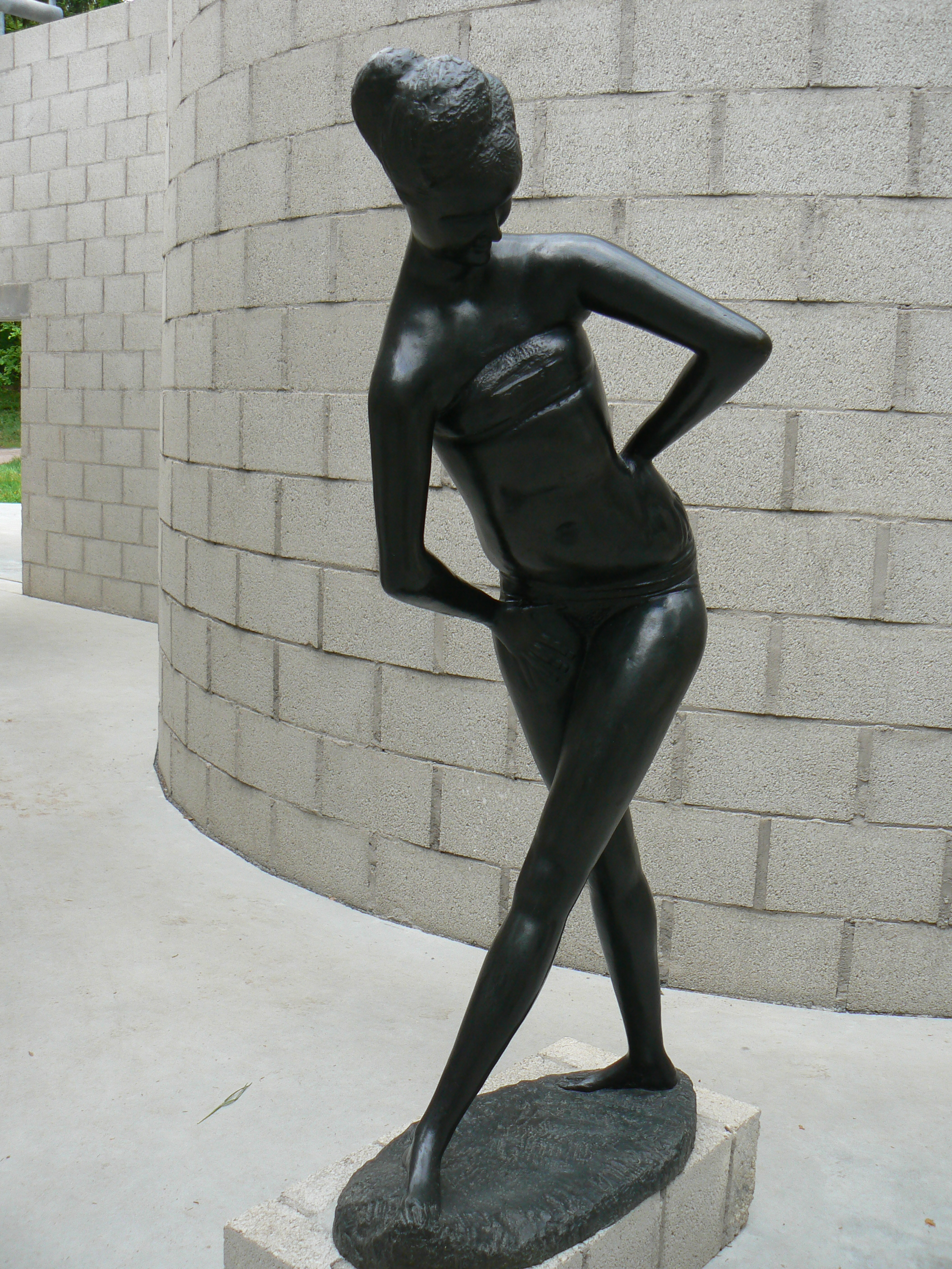 sculpture Grande bagnante n. 3 (1957) by Emilio Greco in sculpturepark KMM/The Netherlands